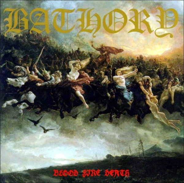 Album cover of Blood Fire Death